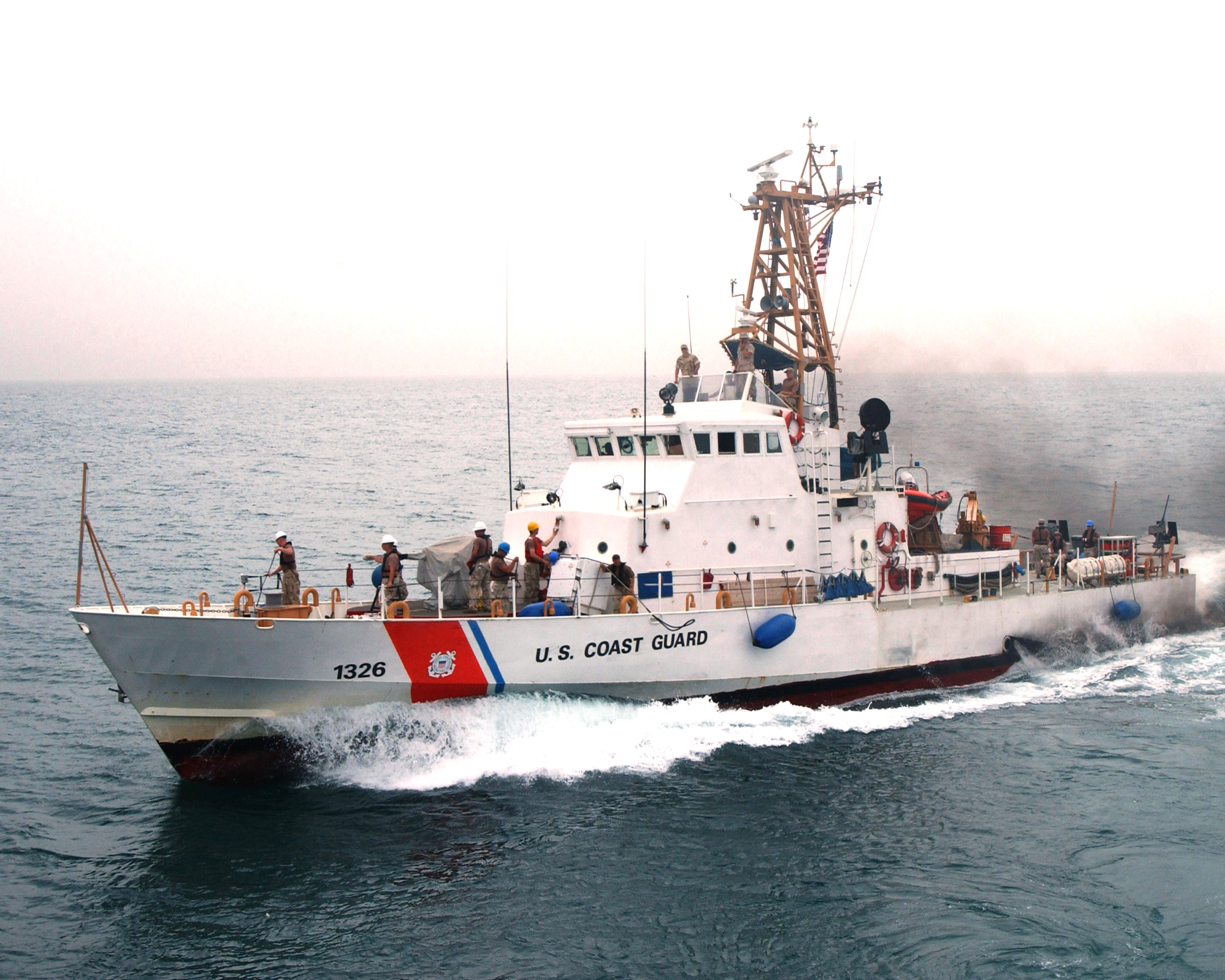 Persian Gulf (April 27, 2005) – Coast Guardsmen aboard U.S Coast Guard Cutter Monomoy (WPB 1326) wave good-bye to the guided missile cruiser USS Antietam (CG 74) after the first underway fuel replenishment (UNREP) between a U.S. Navy cruiser and a U.S. Coast Guard Cutter. Antietam completed fuel replenishment with the Monomoy in about two hours and saved the 110-foot patrol boat a four-hour trip to the nearest refueling station. Antietam and Monomoy are conducting maritime security operations (MSO) in the Persian Gulf as part of Commander, Task Force Five Eight CTF-58). U.S. Navy photo by Journalist Seaman Joseph Ebalo (RELEASED)